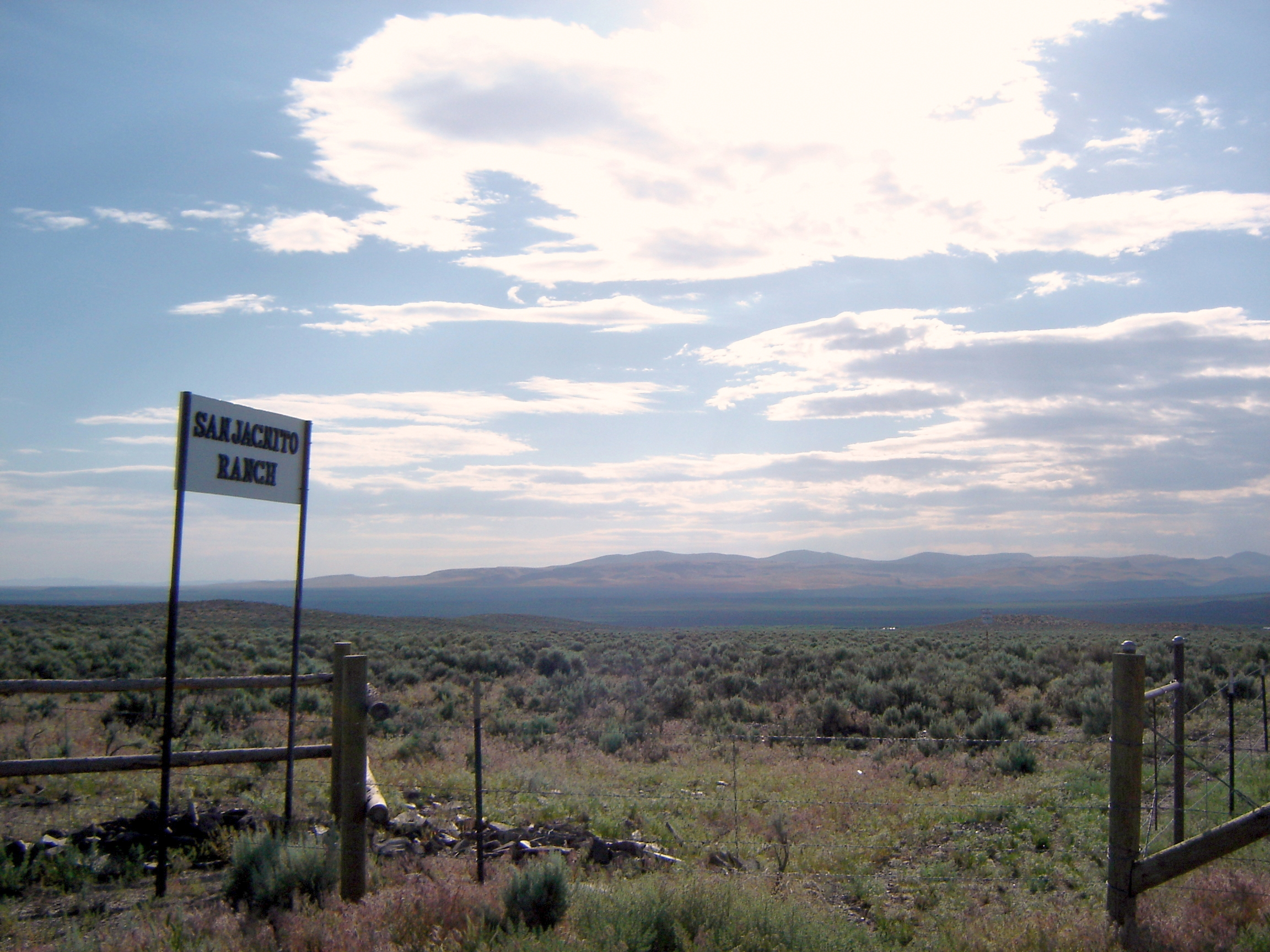 San Jacinto Ranch on the way HWY 93 NV